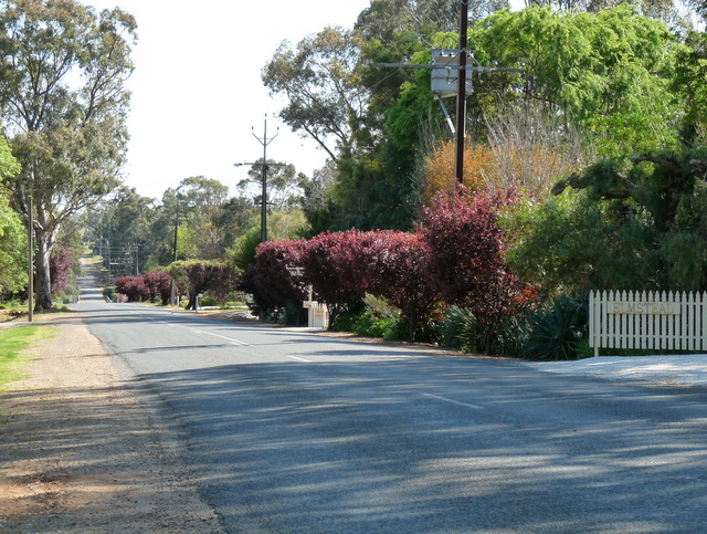 A street view looking north, down towards the North Para River bridge on the main road through Rosedale, South Australia